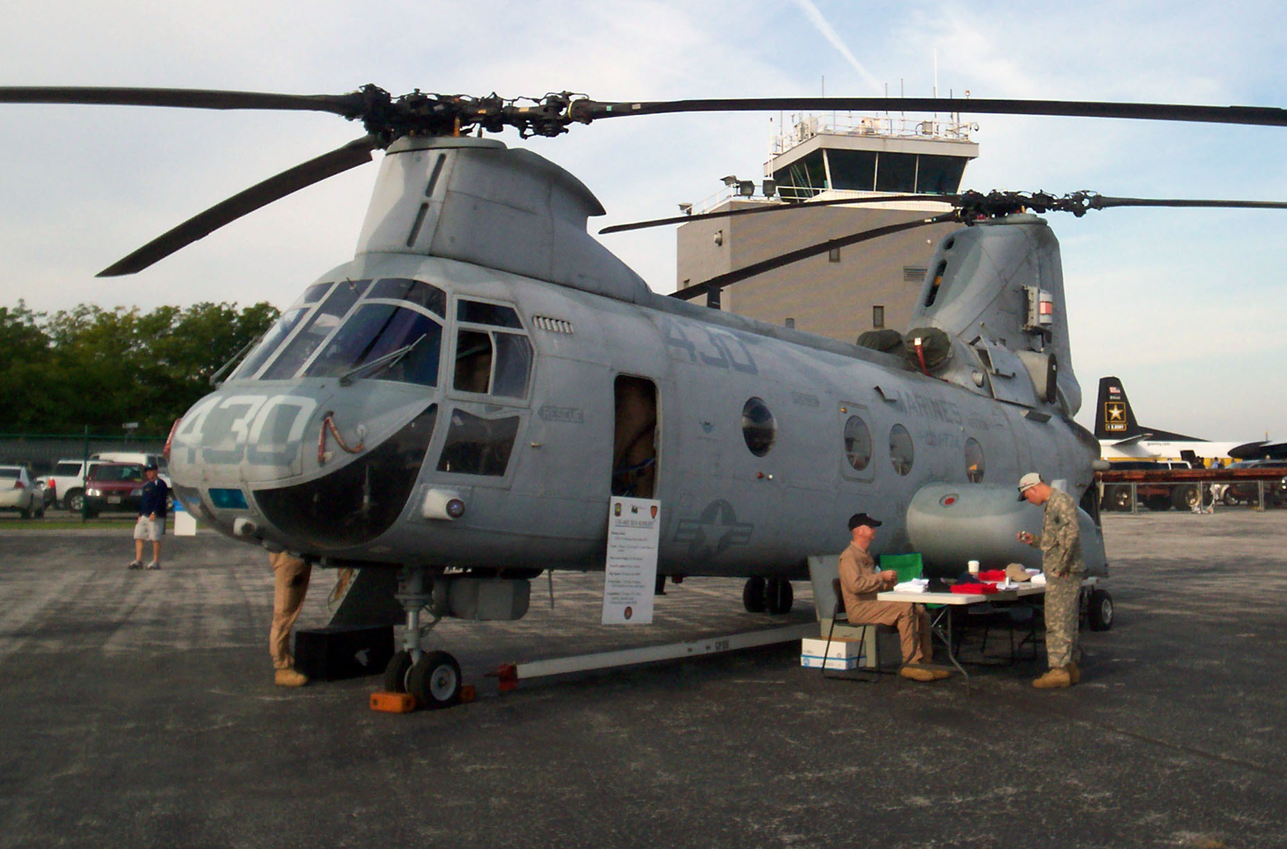 A CH-46 Sea Knight helicopter from the Marine Medium Helicopter Squadron 774 at the Cleveland National Air Show.